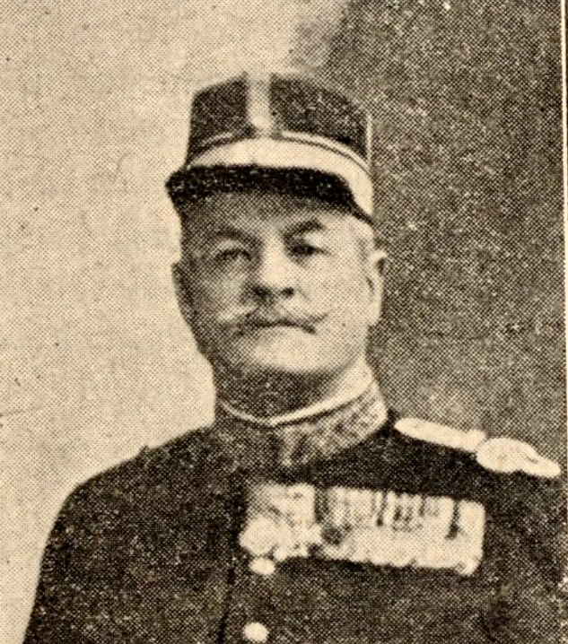 Romanian General Grigore Simionescu - division commander during WWI